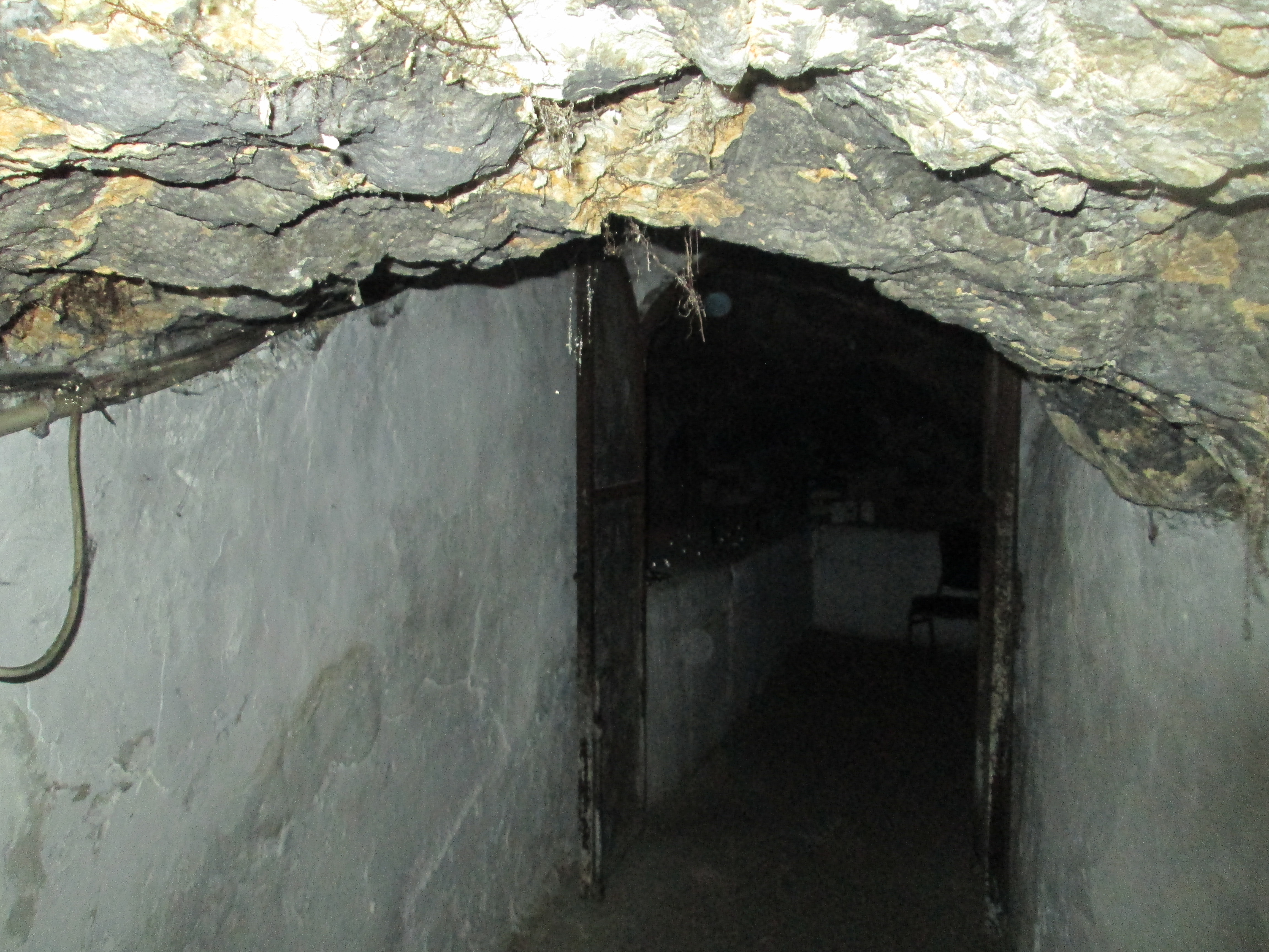 Honi Hameagel's tomb near Hatzor Hagelilit